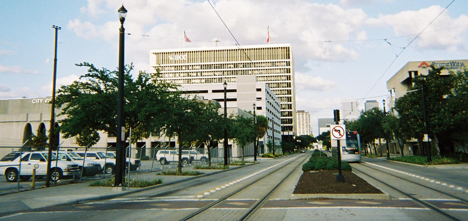 Main Street, Midtown Houston Public domain Taken by WhisperToMe